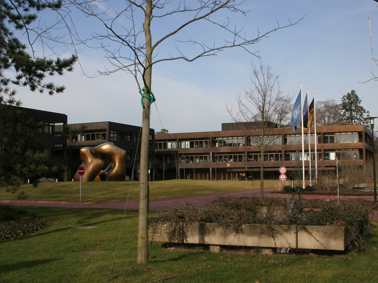 Seat of the Federal Ministry for Economic Cooperation and Development with the sculpture Large Two Forms from Henry Moore in Bonn. Formerly (until 1999) the building was used by the "Bundeskanzleramt" (Federal Chancellery). Afterwards the building was redeveloped before the Ministry moved to this building.